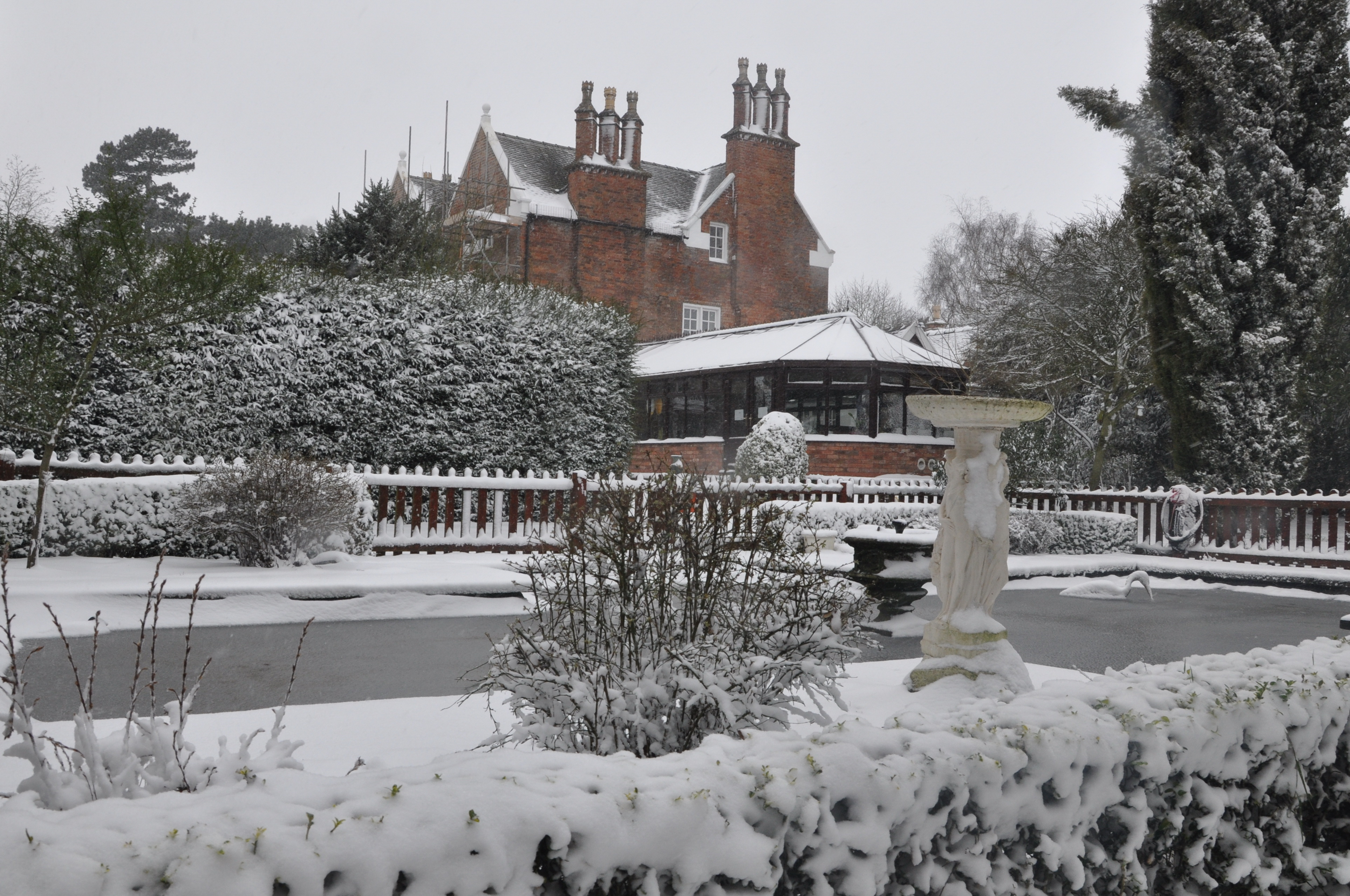 Wat Mahathat Buddhist Temple Kings Bromley